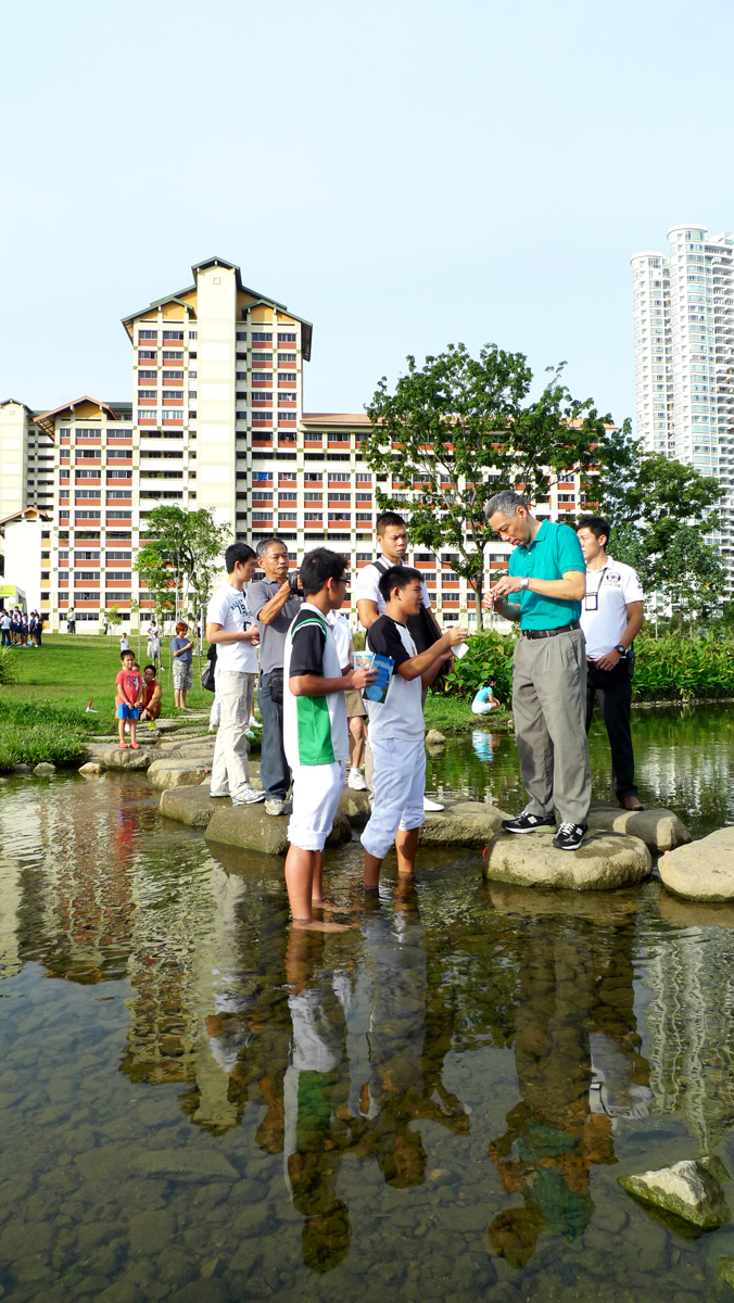 Official opening of Bishan Park. Students from Raffles Institution showing the Prime Minister of Singapore how they test for water pH.